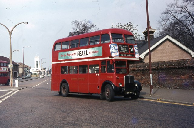 LT Bus RT 4234 route 157, near to Morden, Merton, Great Britain. RT 4234 is on route 157 heading for Sutton Garage, meaning this photo was taken on a Sunday. The advert for Pearl Assurance lasted on London's buses and trolleybuses for very many years.